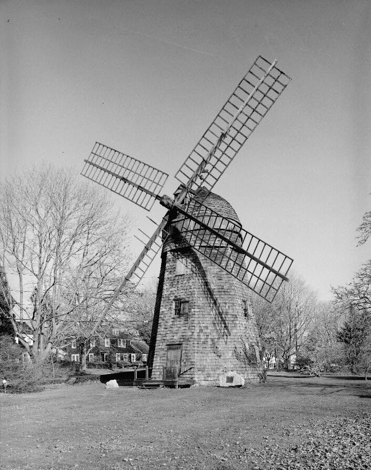 The Beebe Windmill; located since 1820 on Long Island, first in Sag Harbor in 1820, later moved to Bridgehampton. It is also the only Long Island windmill to have "a decorative design, and the only surviving one which compares to English windmills of the same early 1800s period."